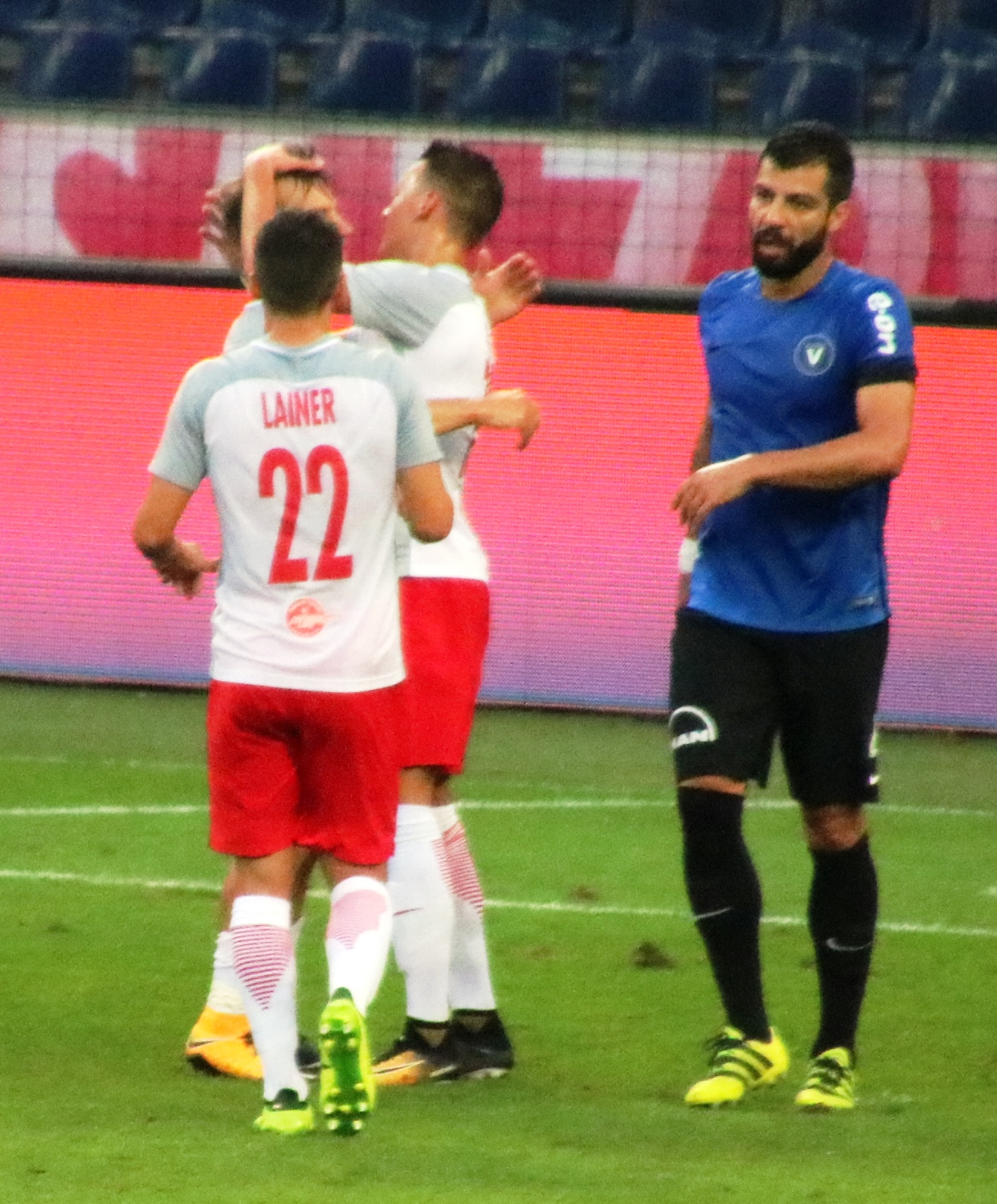 EL play off 2nd leg